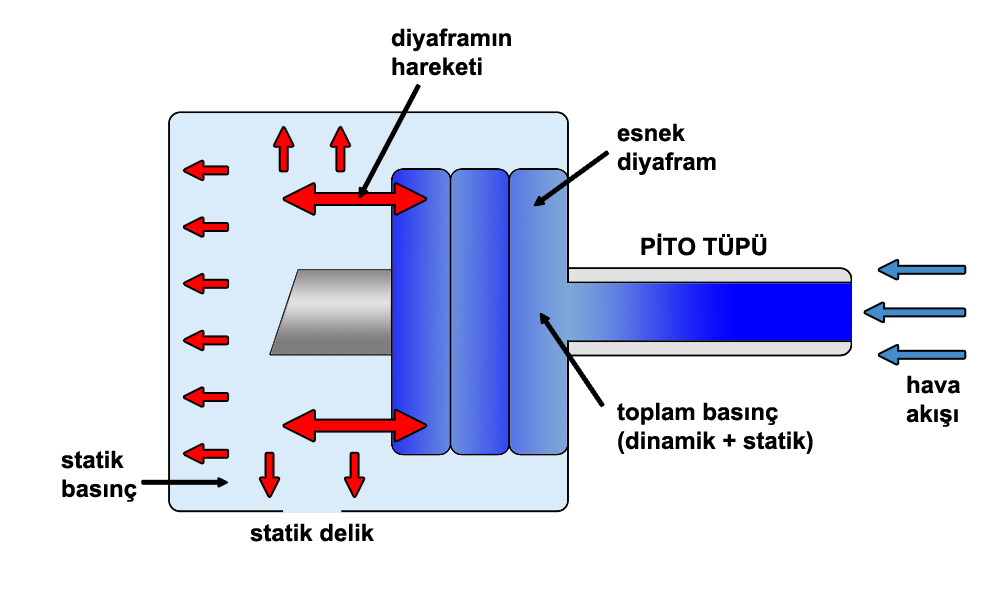 Pitot tubeTürkçe: Pito tüpü